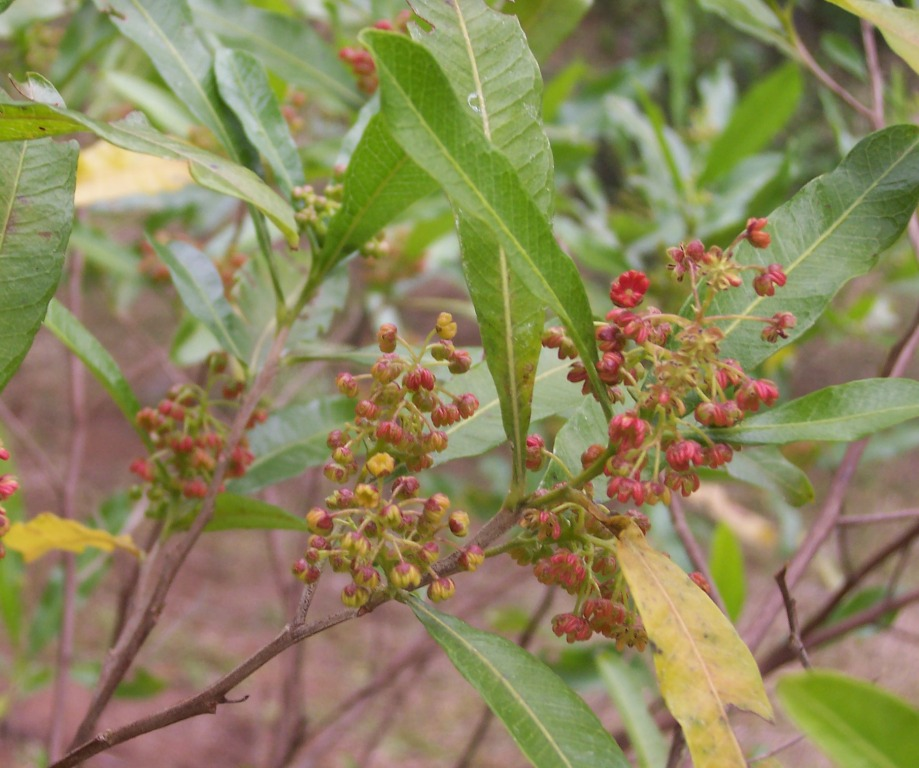 (Dodonea viscosa) - blossom, Réunion island